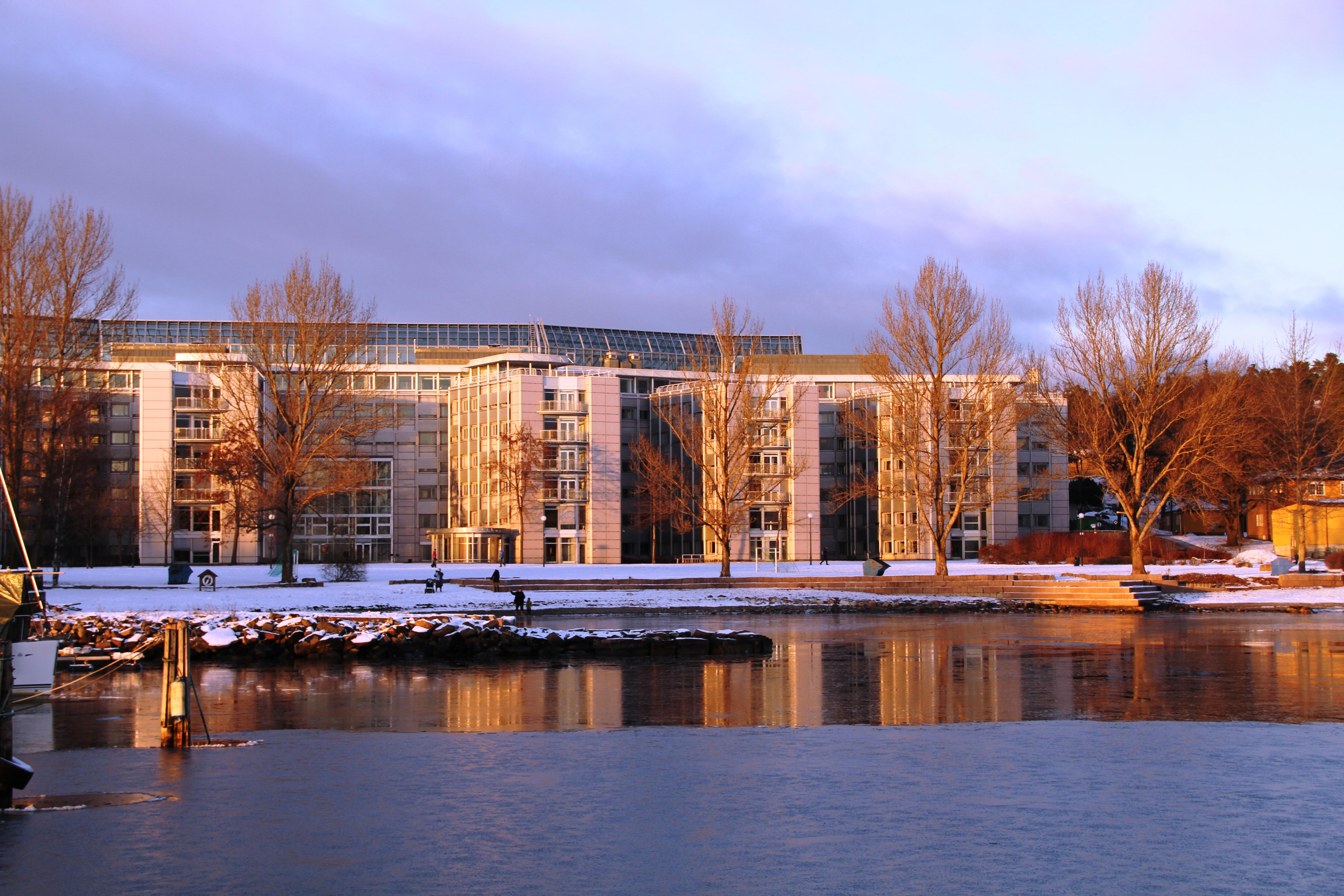 Gjensidige Forsikring, an insurance company of Norway - former headquarters in Lysaker, Oslo.